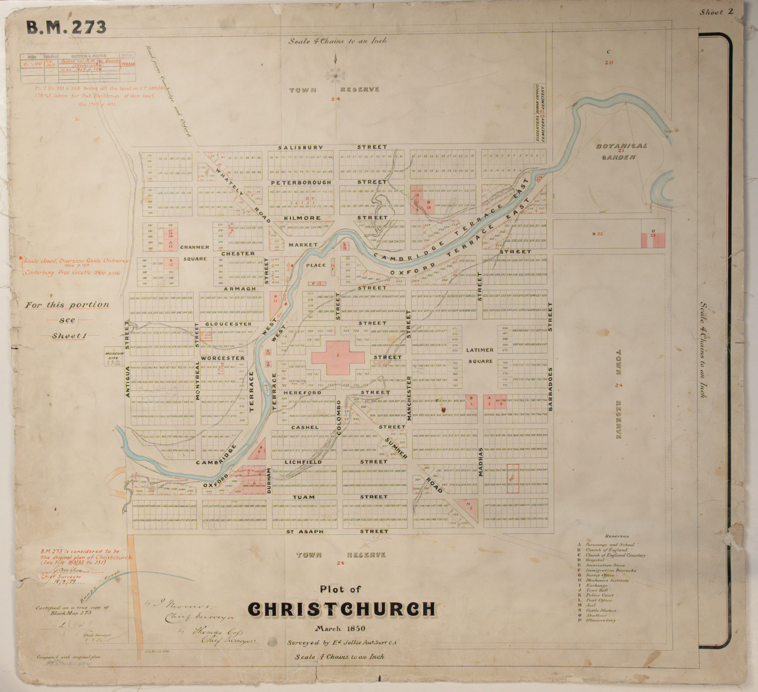 Edward Jollie's original survey of Christchurch, known as the Black Map.